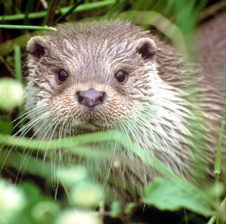 European Otter at the Otter Centre, Hankensbüttel, Germany